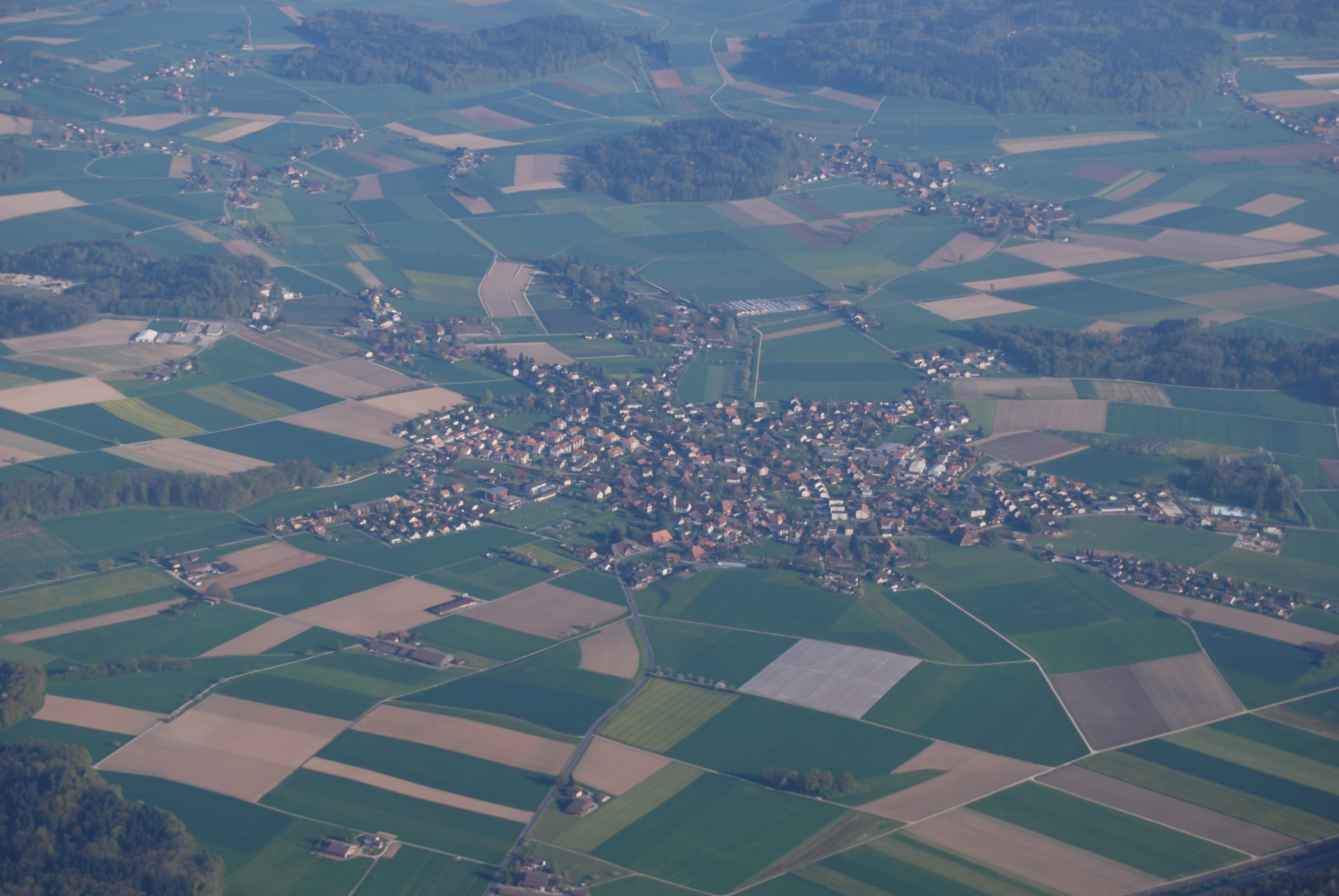 Koppigen, canton of Bern, SwitzerlandEsperanto: Koppigen, Kantono Berno, Svislando